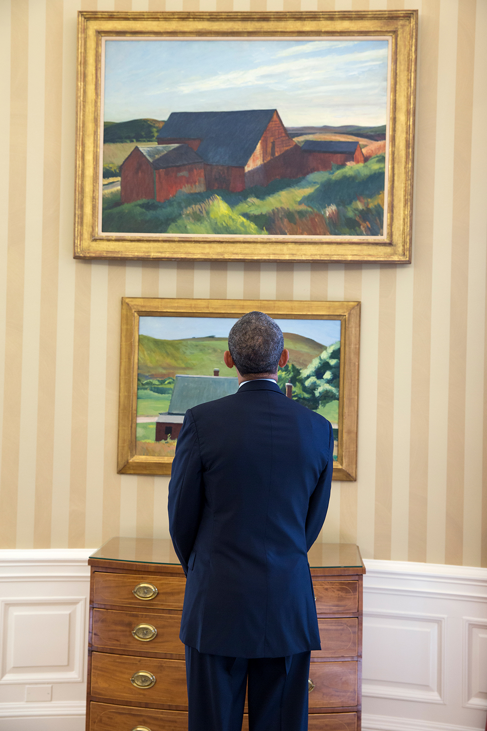 President Barack Obama looks at two Edward Hopper paintings on display in the Oval Office, Feb. 7, 2014. The paintings are Cobb's Barns, South Truro, top, and Burly Cobb’s House, South Truro. (Official White House Photo by Chuck Kennedy)